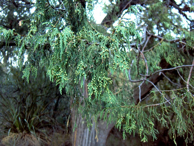 Mexican Weeping Juniper, Big Bend National Park, Texas